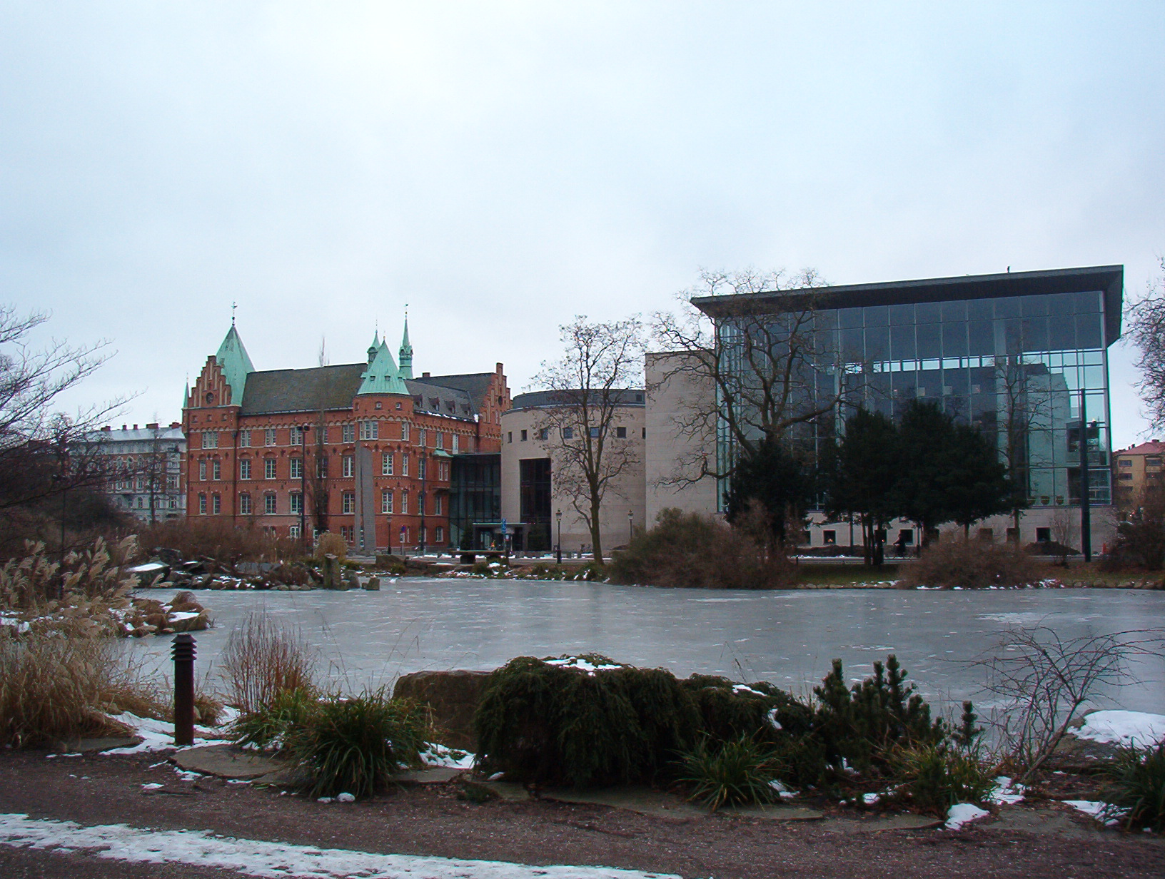 Malmö public library, Sweden. Date: January 2006 Self-created